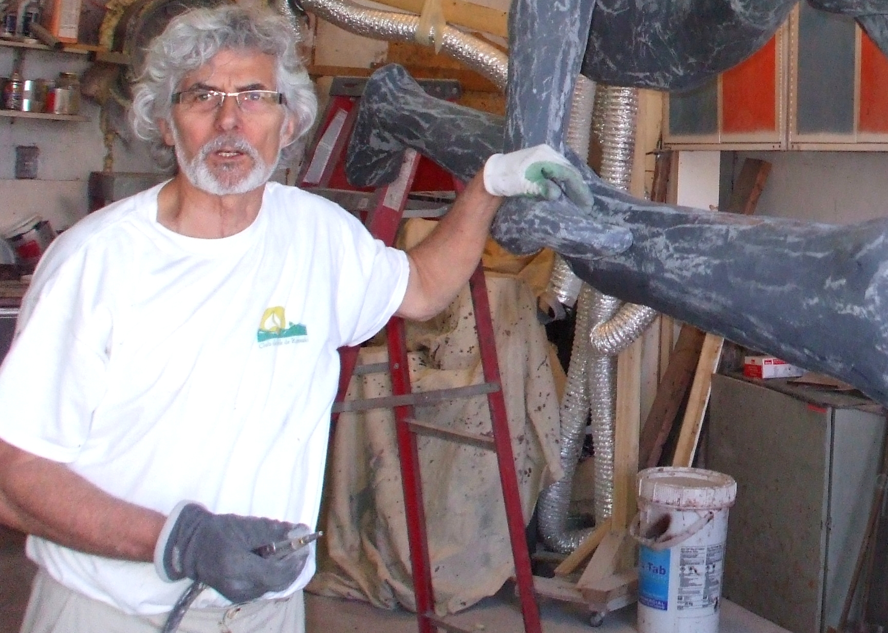 Sculptor Roger Langevin at work, june 07-2012 Picture cropped,and asking by the sculptor R. Langevin